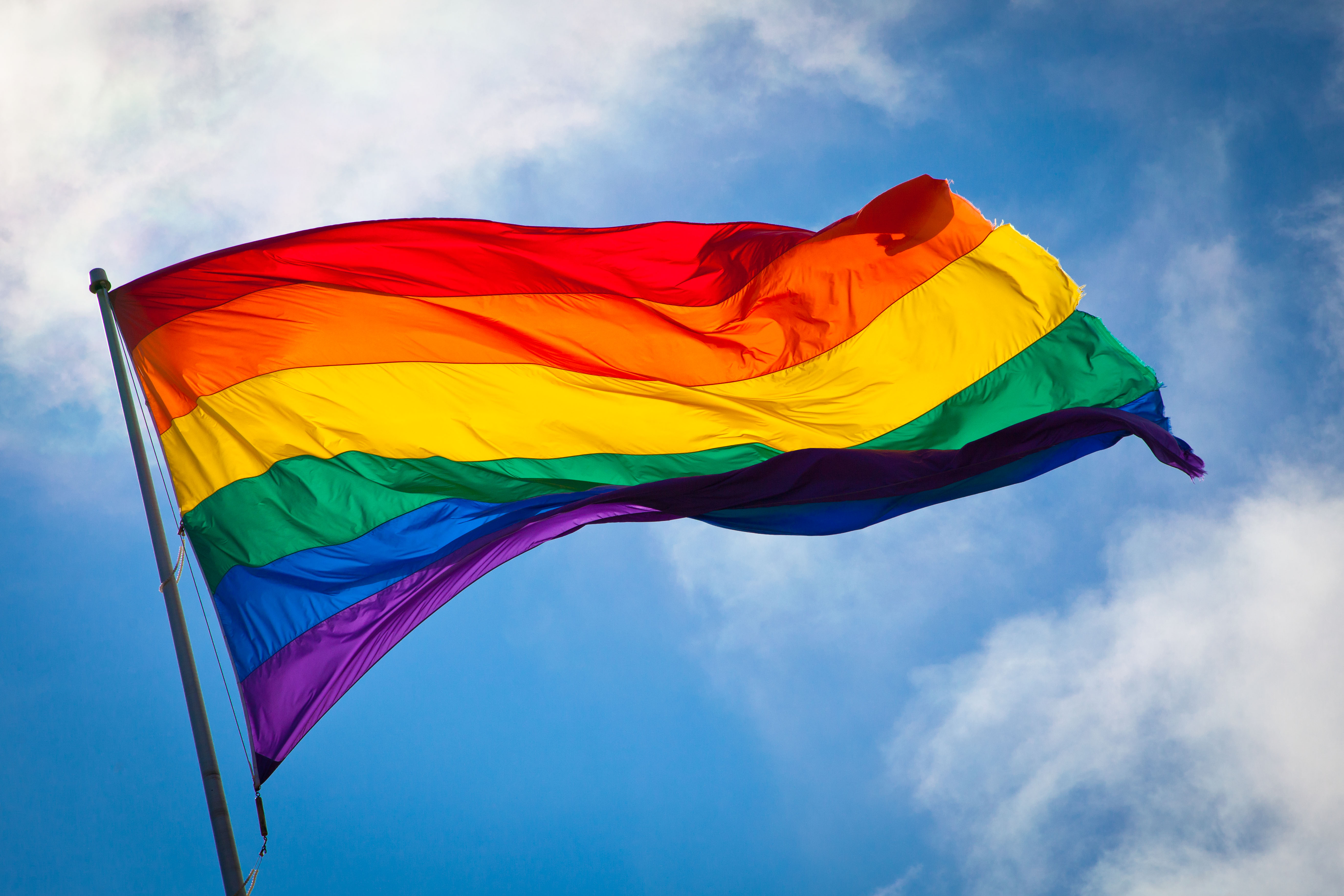 The rainbow flag waving in the wind at San Francisco's Castro District San Francisco, California